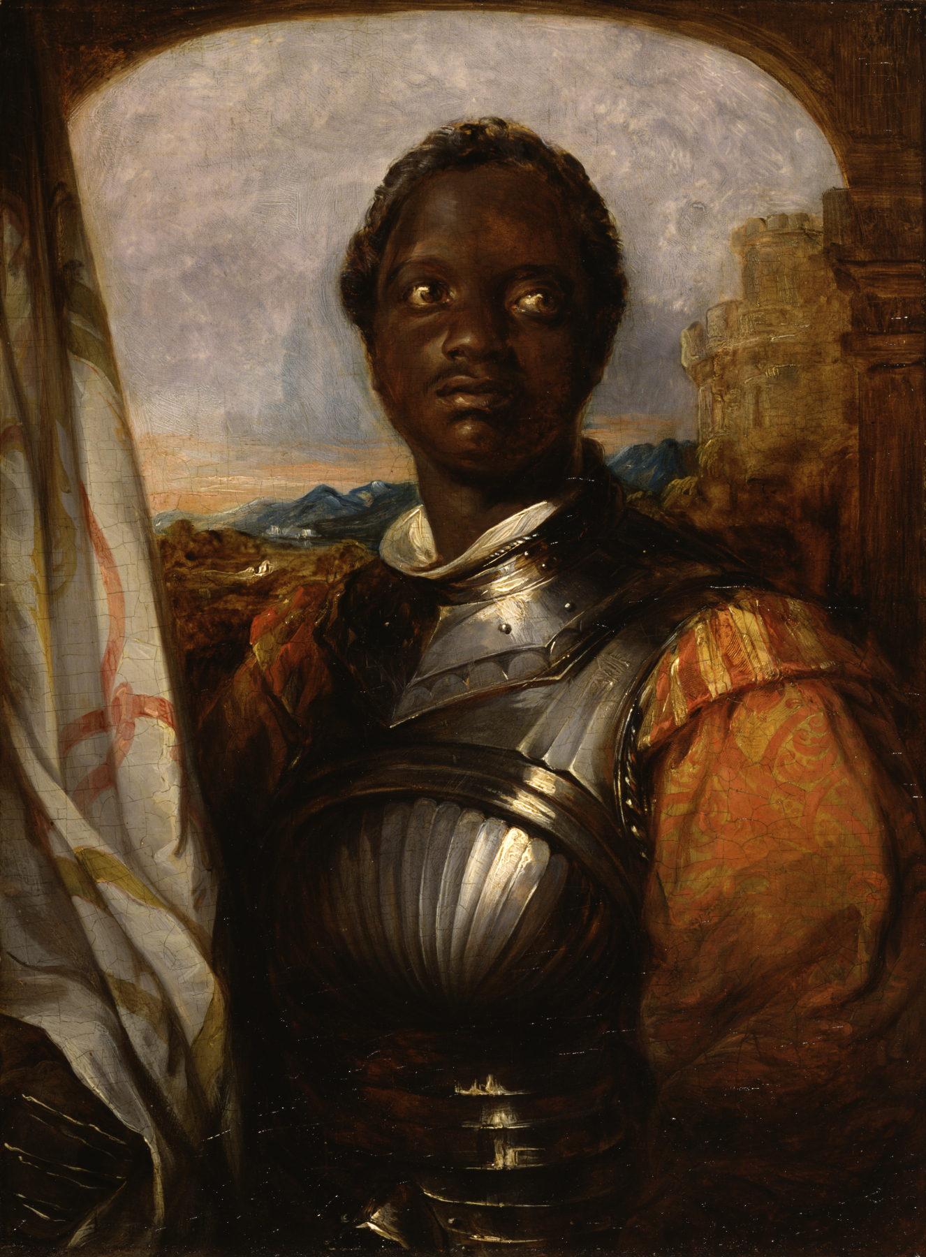 Mulready spent most of his career in London painting genre subjects. Many of his major works are now on display in the Victoria and Albert Museum. Here, he has portrayed the BLACK actor Ira Aldridge (1805 (?)-1867), who won renown in Europe for his Shakespearean roles, including Othello, Lear, and Macbeth. This half-length portrait shows Aldrige in battle armor, with a flag at his right, in front of a stone archway.